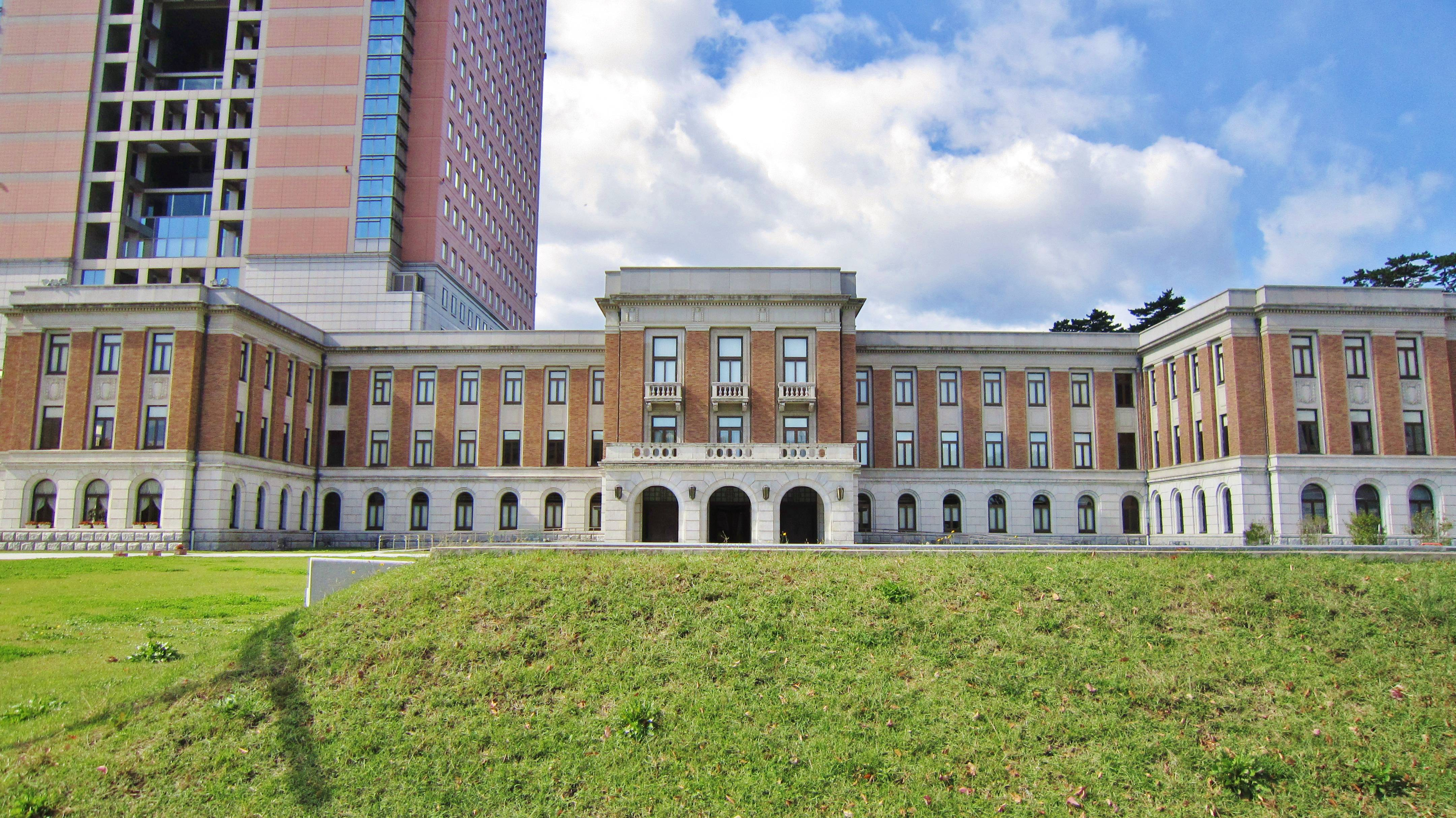 Gunma Prefectural Government Building Showa Government Building.